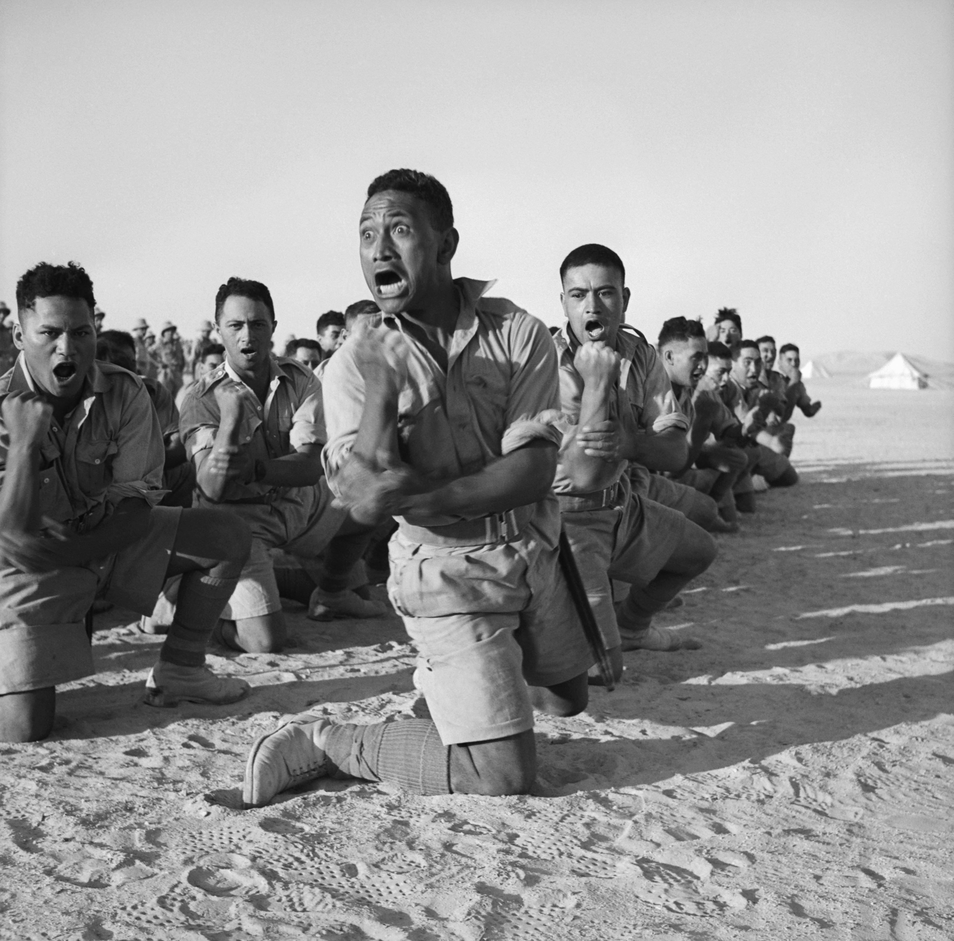 Māori Battalion survivors of action in Greece, performing a haka in Helwan, Egypt for the King of Greece. From left to right, the four men in the foreground are John Manuel, Maaka White, Te Kooti Reihana, and Rangi Henderson.A cropped version of this photo featured on an ANZAC commemorative stamp issued in 2008.[2]